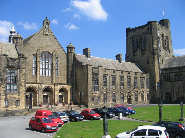 UCNW, Bangor. The quadrangle in the main college building on College Road.